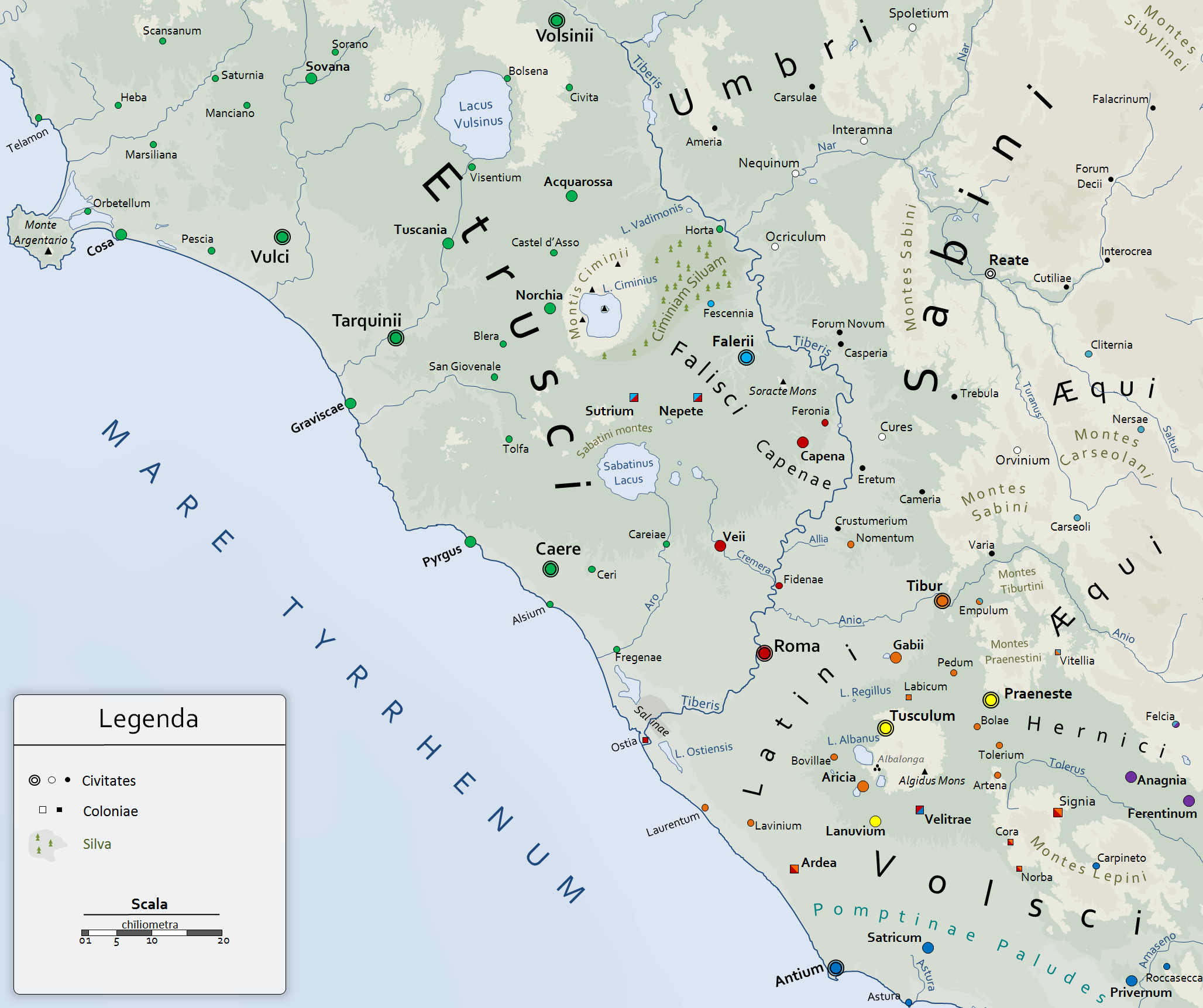 See Guerre romano-étrusque (389 - 386)#Contexte for the full legend/caption of the map.